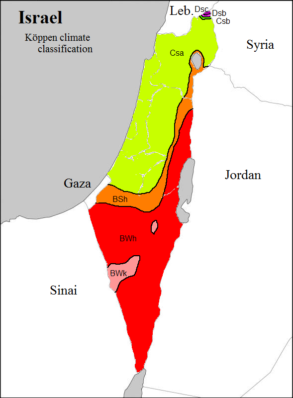 A map of the Israeli climate